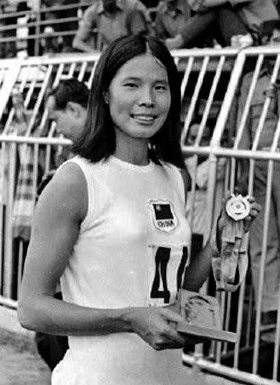 Chi Cheng (athlete), 1970 Asian Games